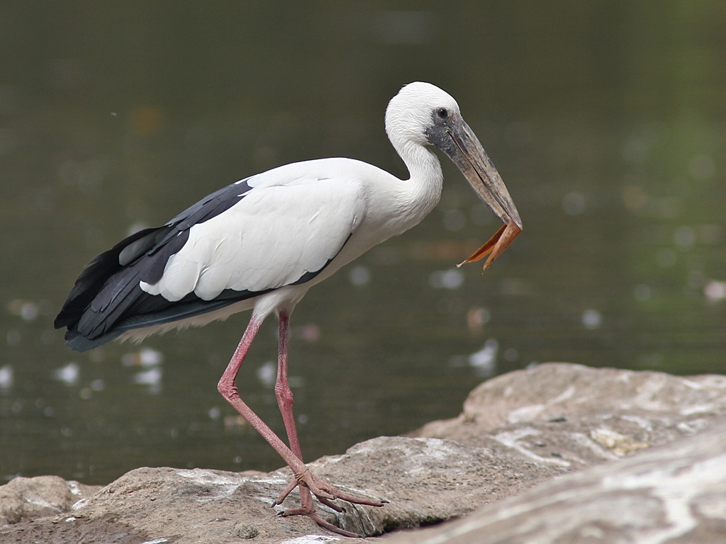 Clicked at the Ranganthittu Bird Sanctuary, Mysore.